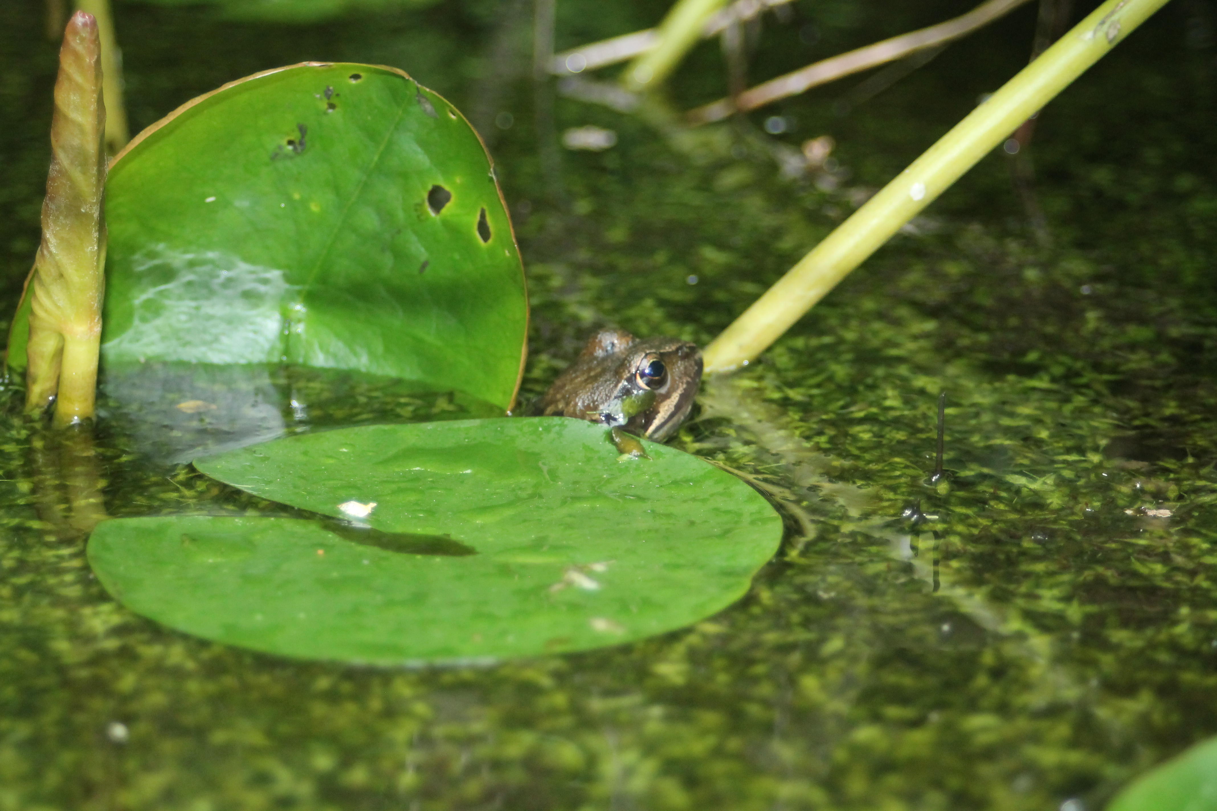 An image of a frog in a pond in Hidcote Bartrim